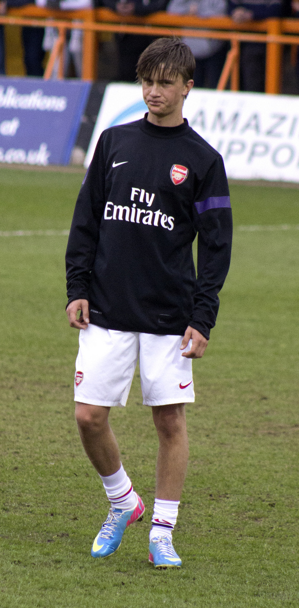 Kristoffer Olsson Of Arsenal Football Club